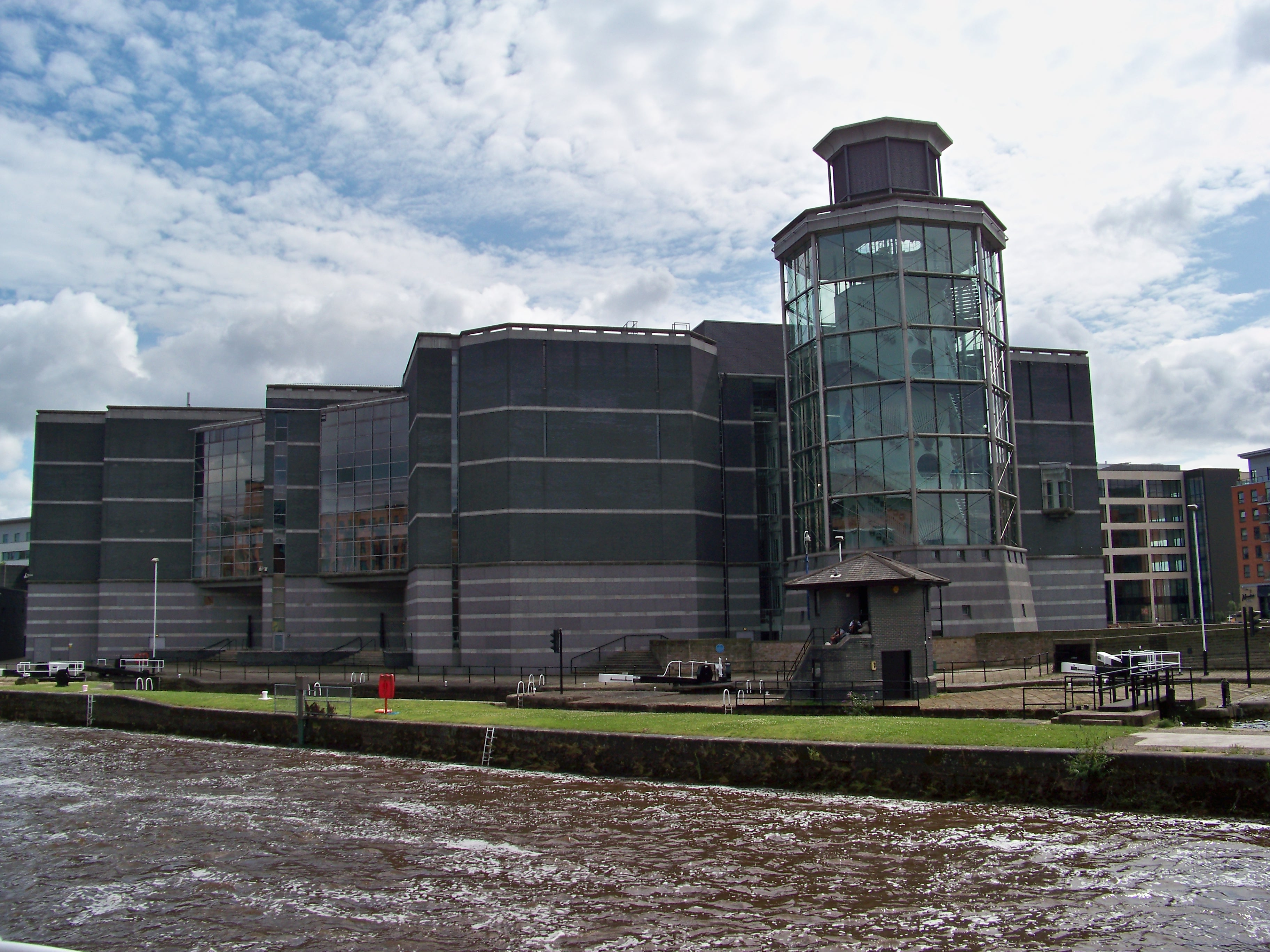 The rear facade and glass stairwell of the Royal Armouries Musuem in Leeds, West Yorkshire, UK. Taken on the afternoon of Saturday 18th July 2009.